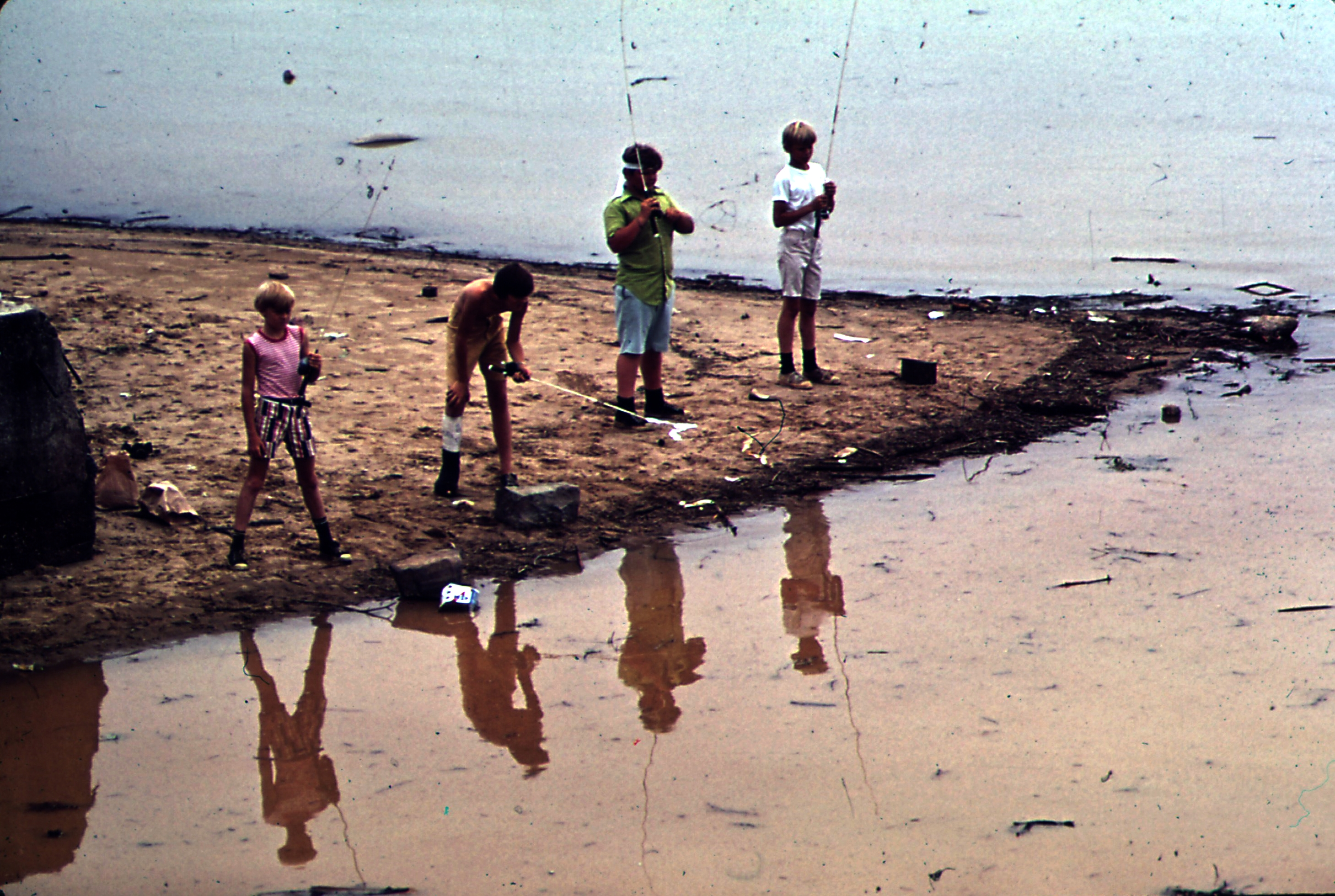 General notes: Color adjusted; cropped photo